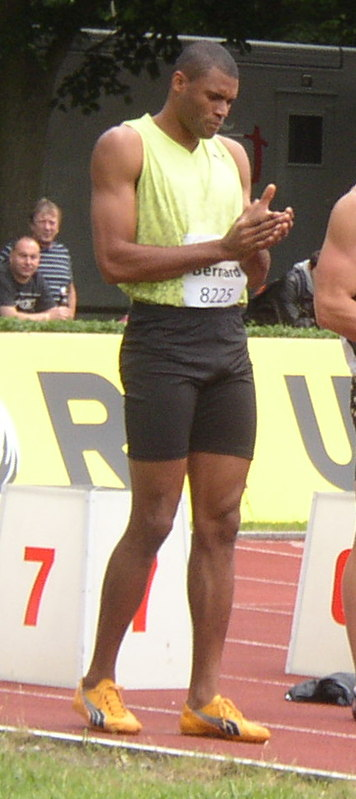 Athlete Claston Bernard of Jamaica prepares for 100m heat during men's decathlon at 4th edition of the TNT - Fortuna Meeting (IAAF World Combined Events Challenge Meeting, Sletiště Stadium, Kladno, Czech Republic, 15 June 2010, 12:05). Bernard did not finish the competition due to a mishap in the long jump (he fell and hit with his head the ground beyond the landing place which resulted in light injury).